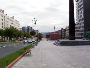 Municipality of Leioa (Lejona), Euskadi